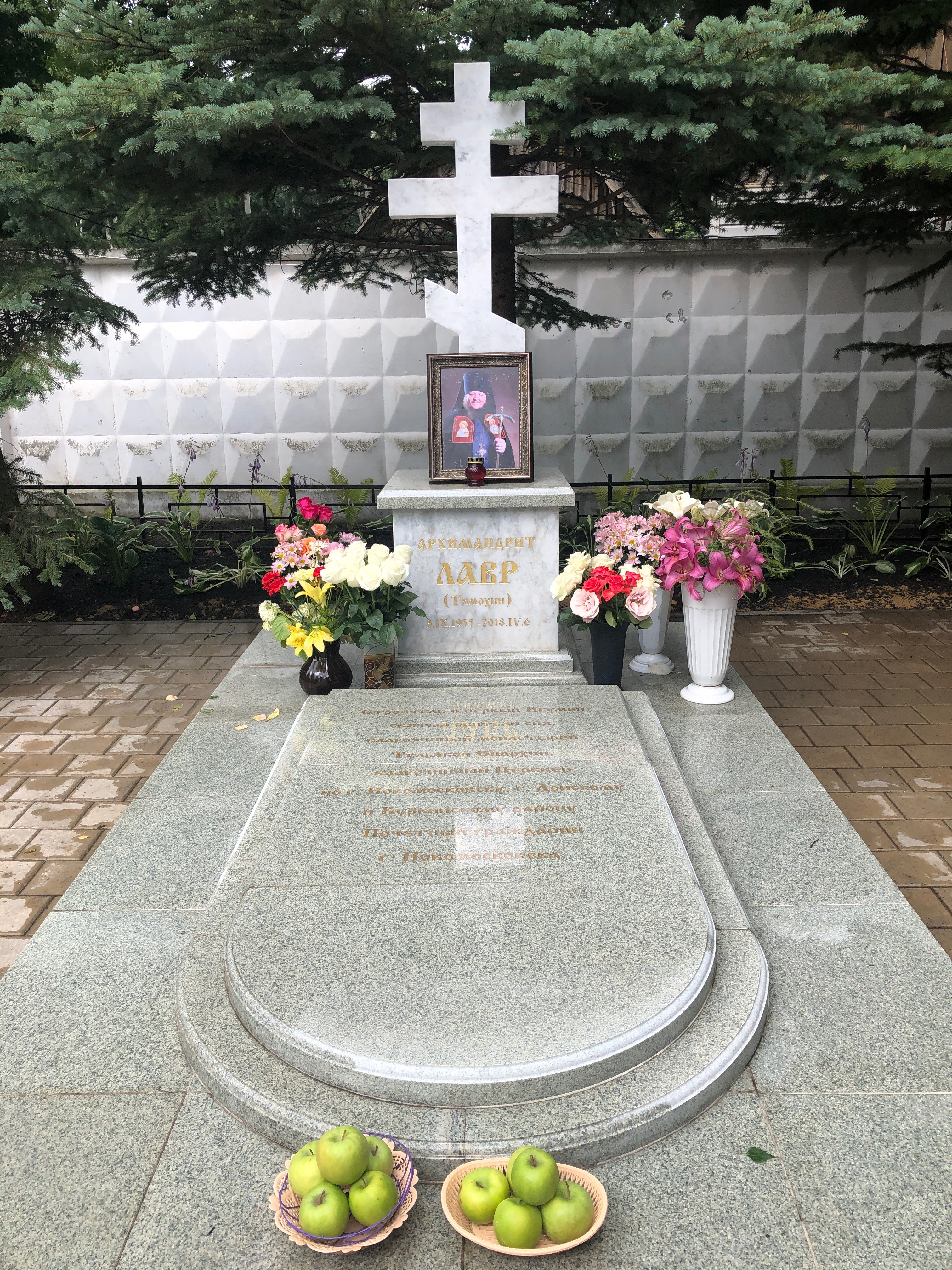 mogila Lavra (Timokhina)